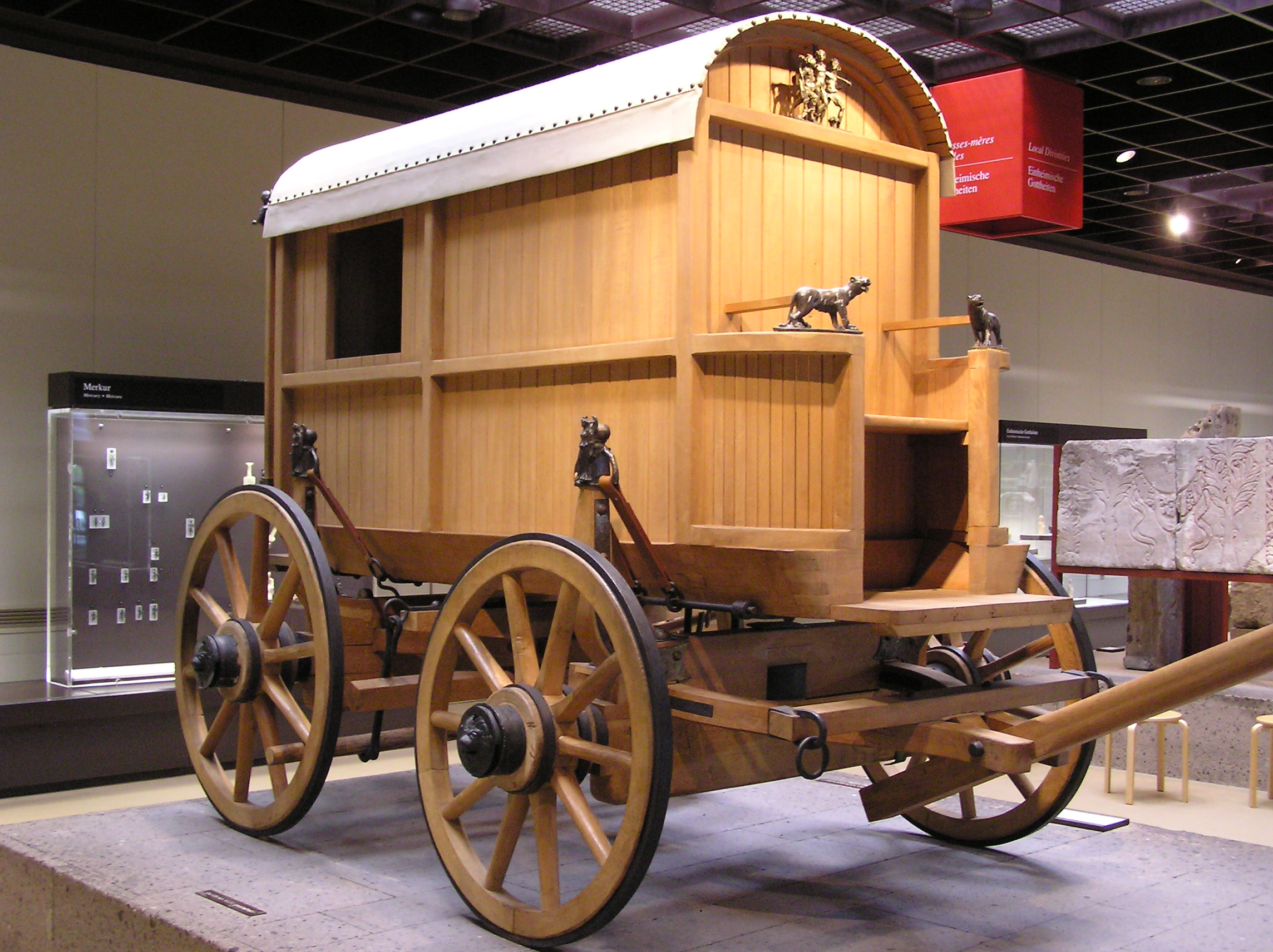 Reconstruction of a Roman carriage as shown in the Römisch-Germanisches Museum, Cologne, Germany.